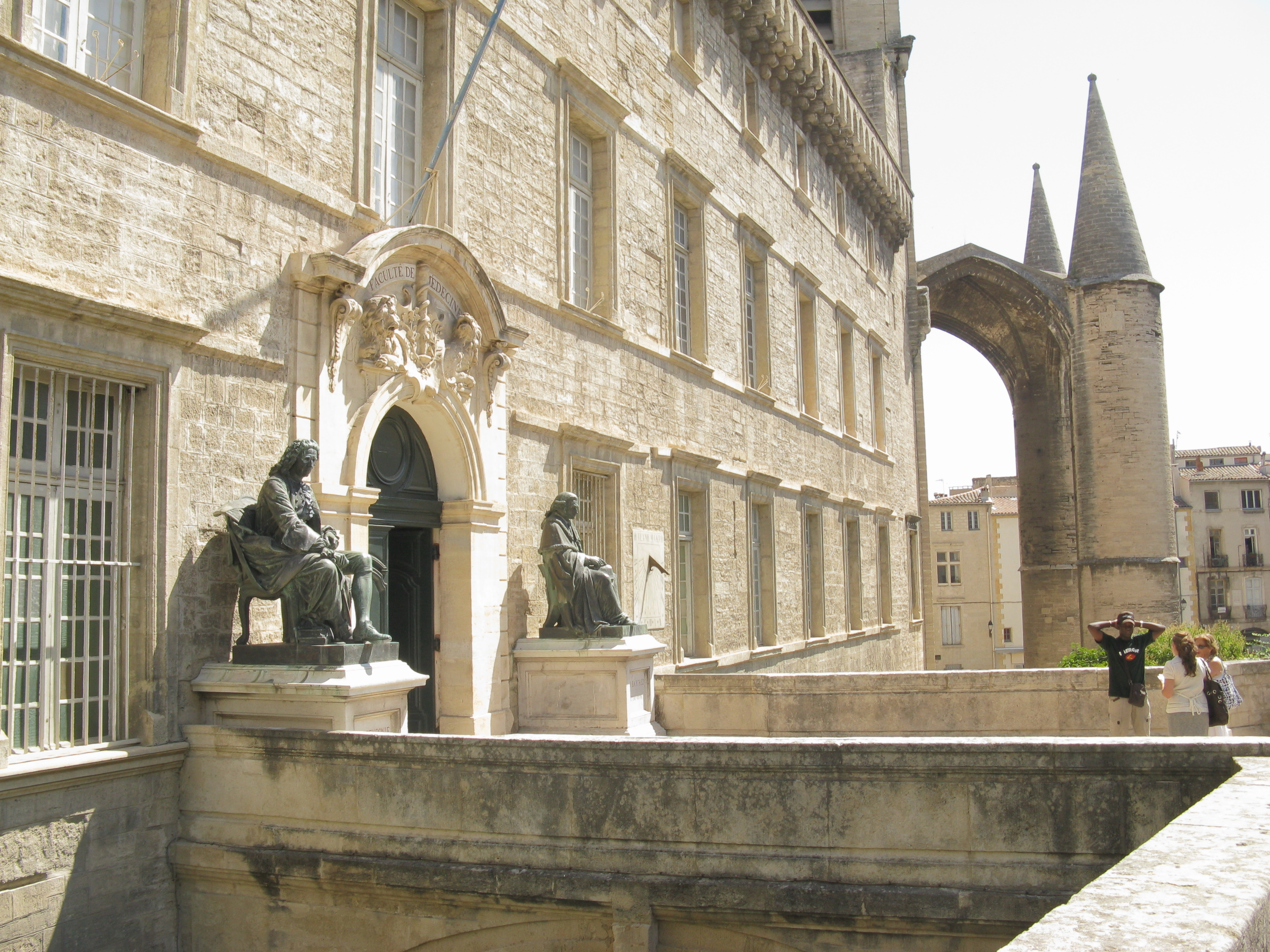 The medical faculty in Montpellier, France.